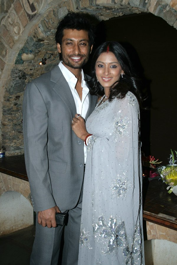 Barkha Bisht and Indraneil Sengupta's wedding reception party